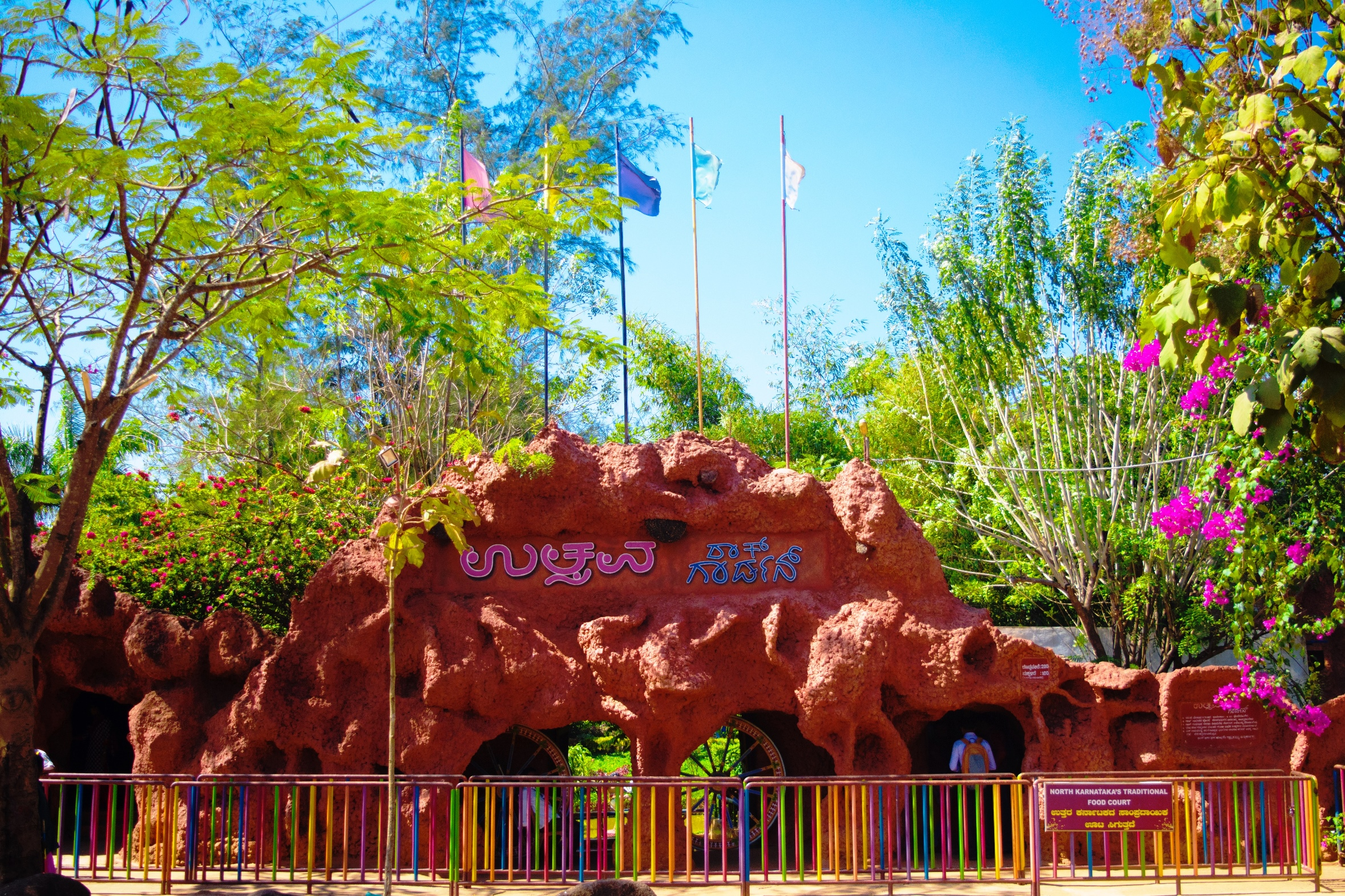 Utsav Rock Garden Entrance Gate and it is a symbol of world clock